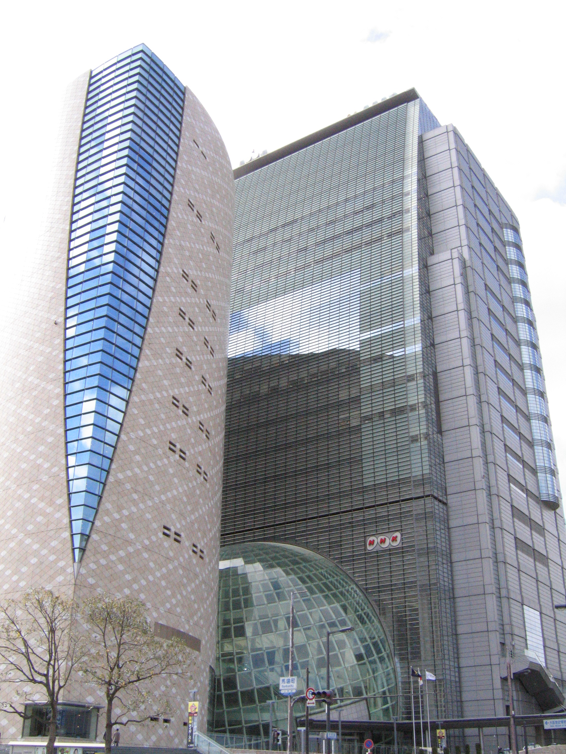 Building of NHK Broadcasting, Osaka